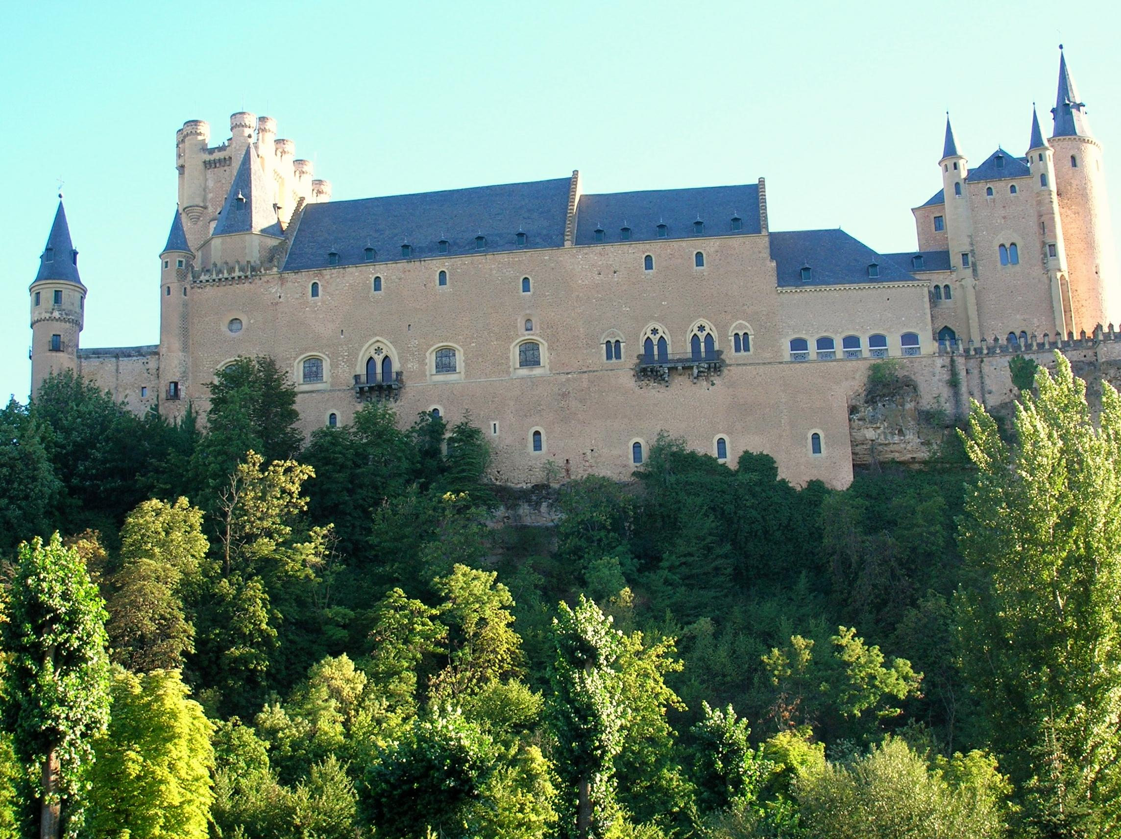 Aspecto del Alcázar de Segovia desde el valle del río Eresma (España)